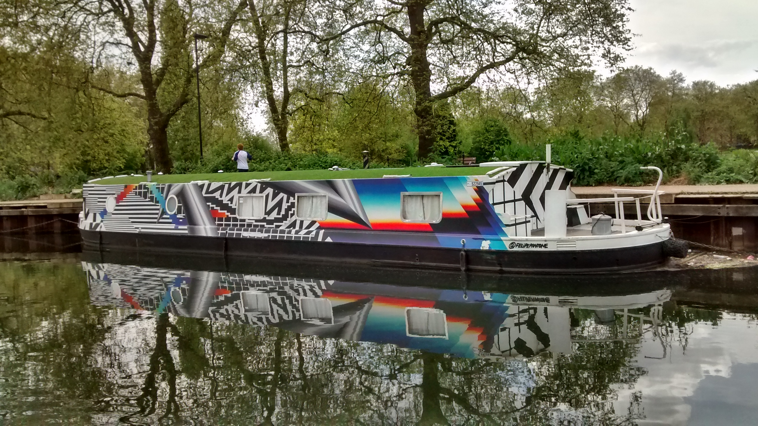 Dazzle camouflage on the widebeam Growbeautifully on the river Lea at Leyton Marshes.The @ adderess on the sturn is "@Felipepantone" indicating that the paint design is by Felipe Pantone.